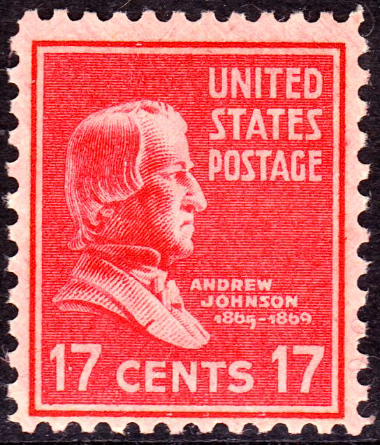 Andrew_Johnson_1938_Issue-17c.jpg